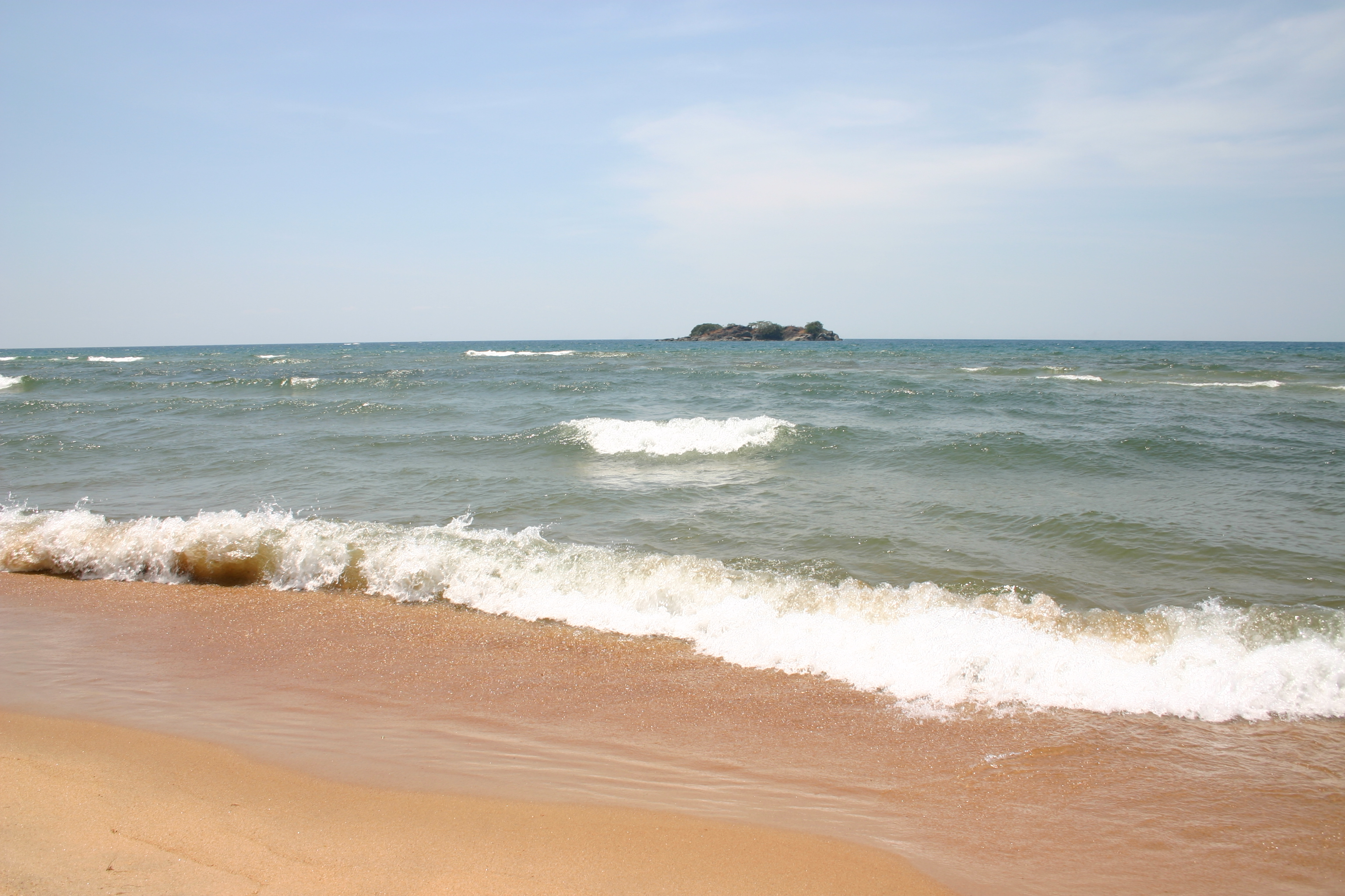 Shore of Lake Malawi, with island in background